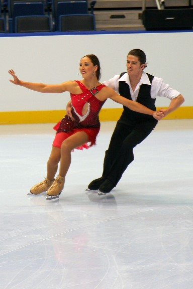 Sinead Kerr & John Kerr at the 2006 Skate America.